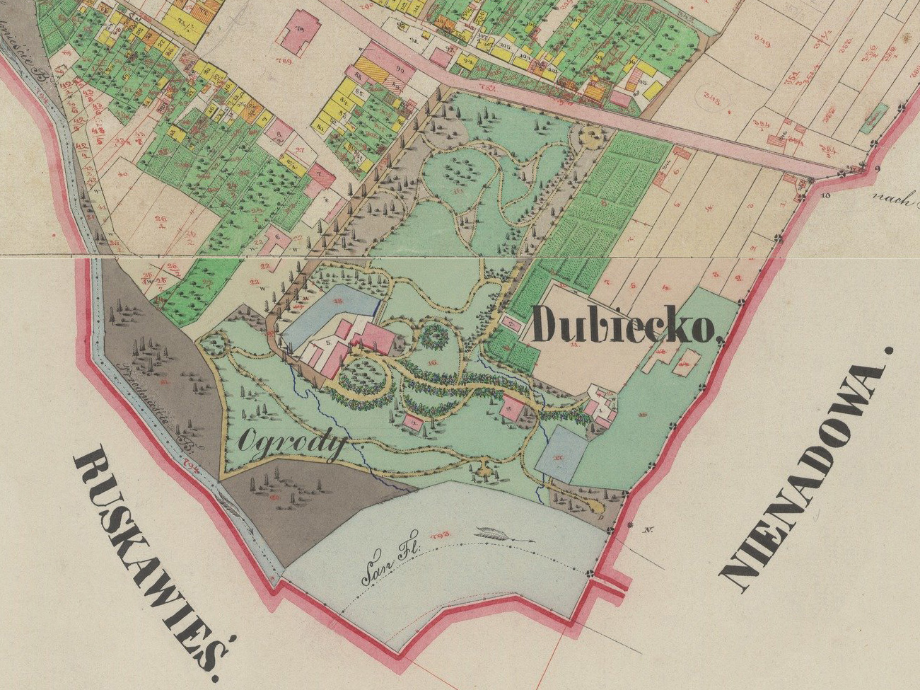 Dubiecko castle on a map from 1851